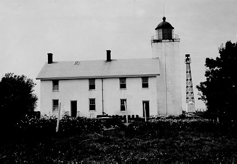 Horton Point Light (USCG photo)